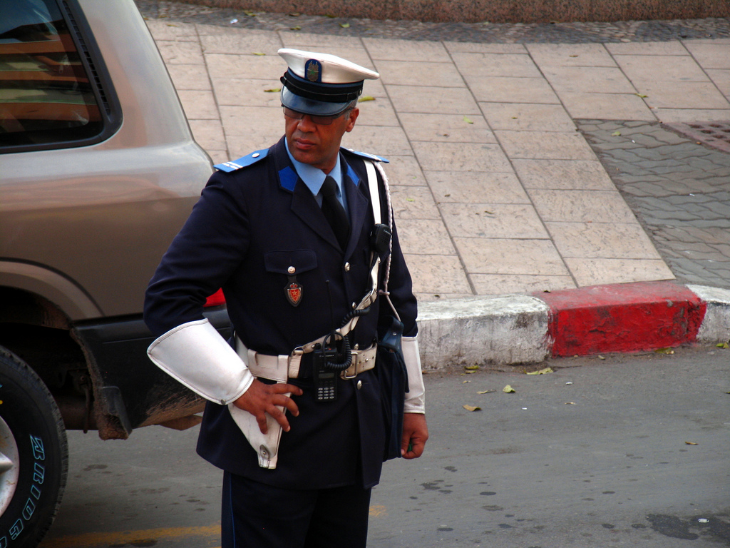 Map it: Google Earth - Google Map